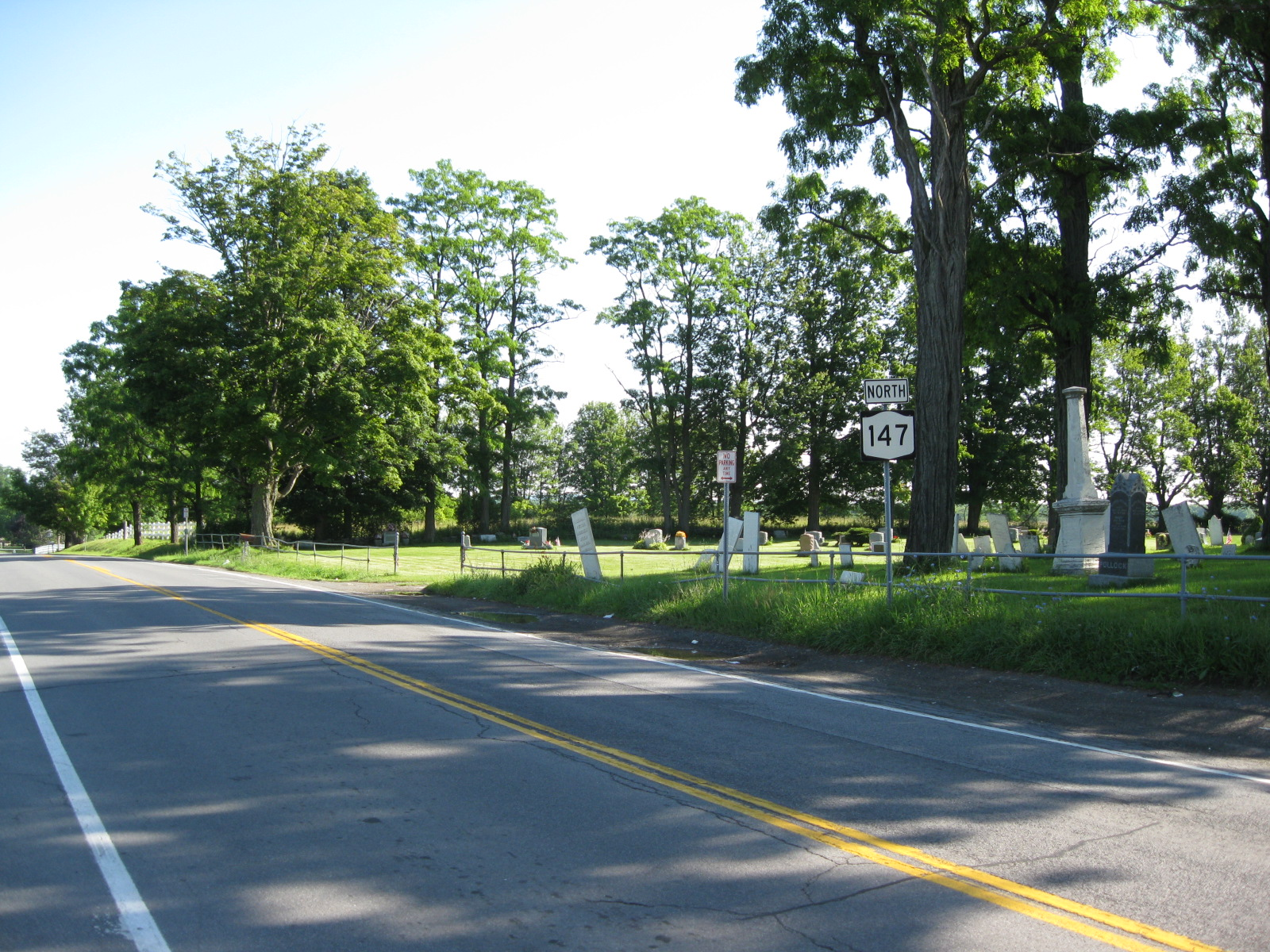 New York State Route 147 passing Maple Shade Cemetery in Glenville, New York.